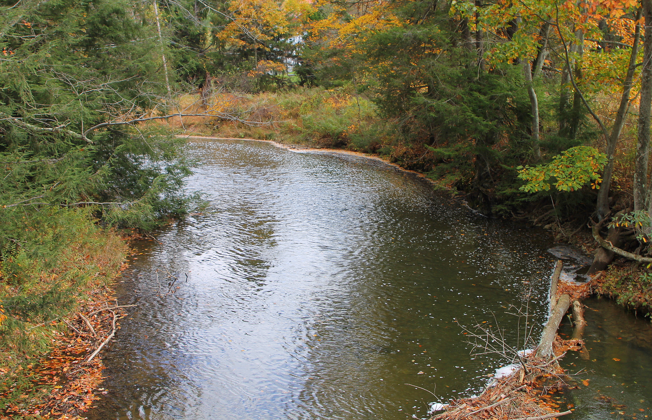 Catawissa Creek near Brandonville, Pennsylvania looking upstream